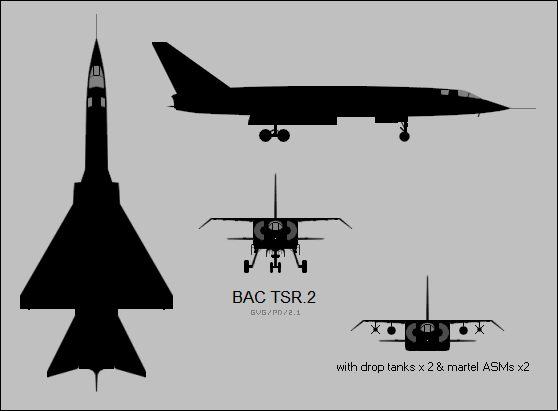 3-view silhouettes of the British Aircraft Corporation TSR.2